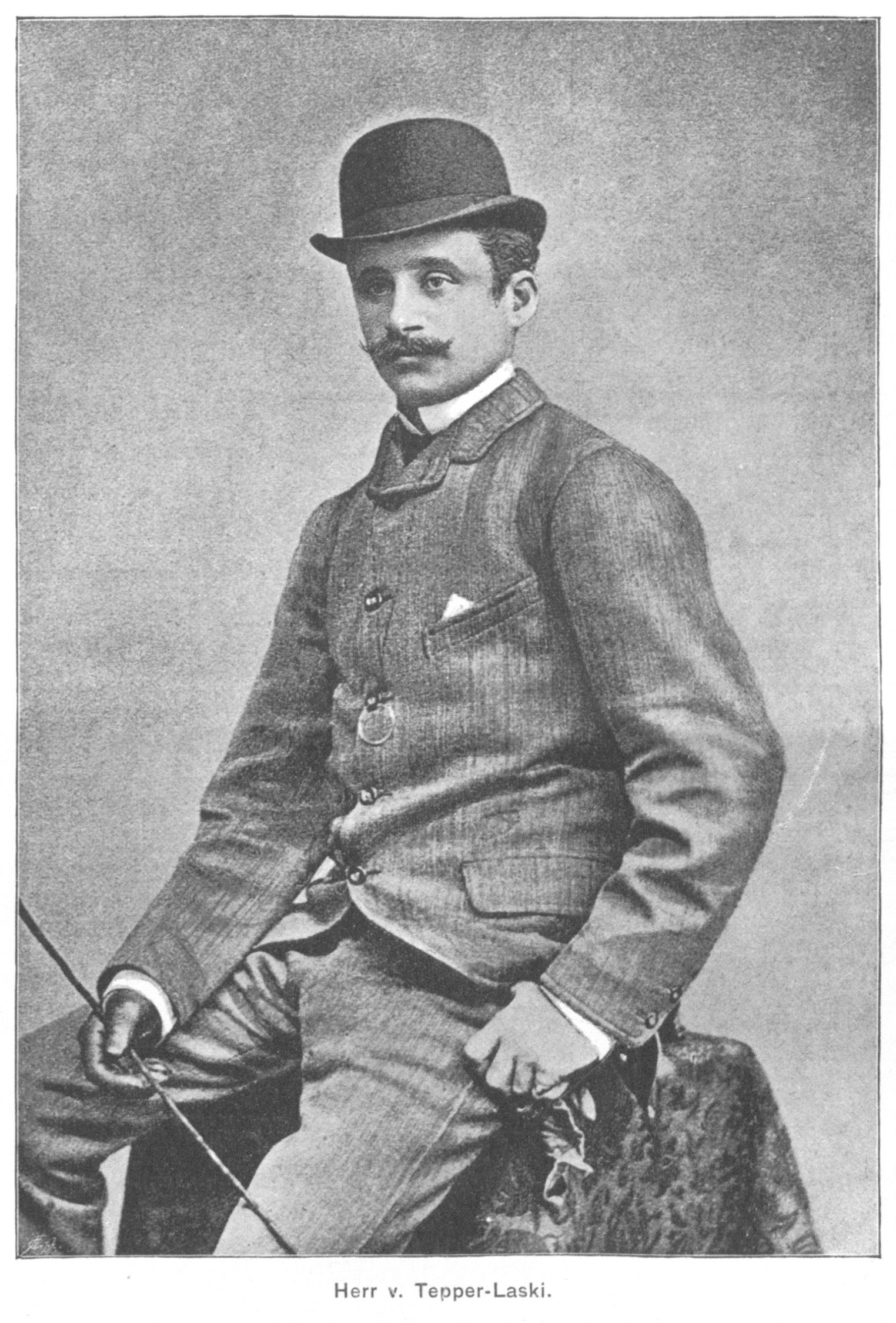 Photograph of Kurt von Tepper-Laski (1850-1931), German jockey and officer. First name is not in the caption but the person can be identified from description on page 9 of the same issue.